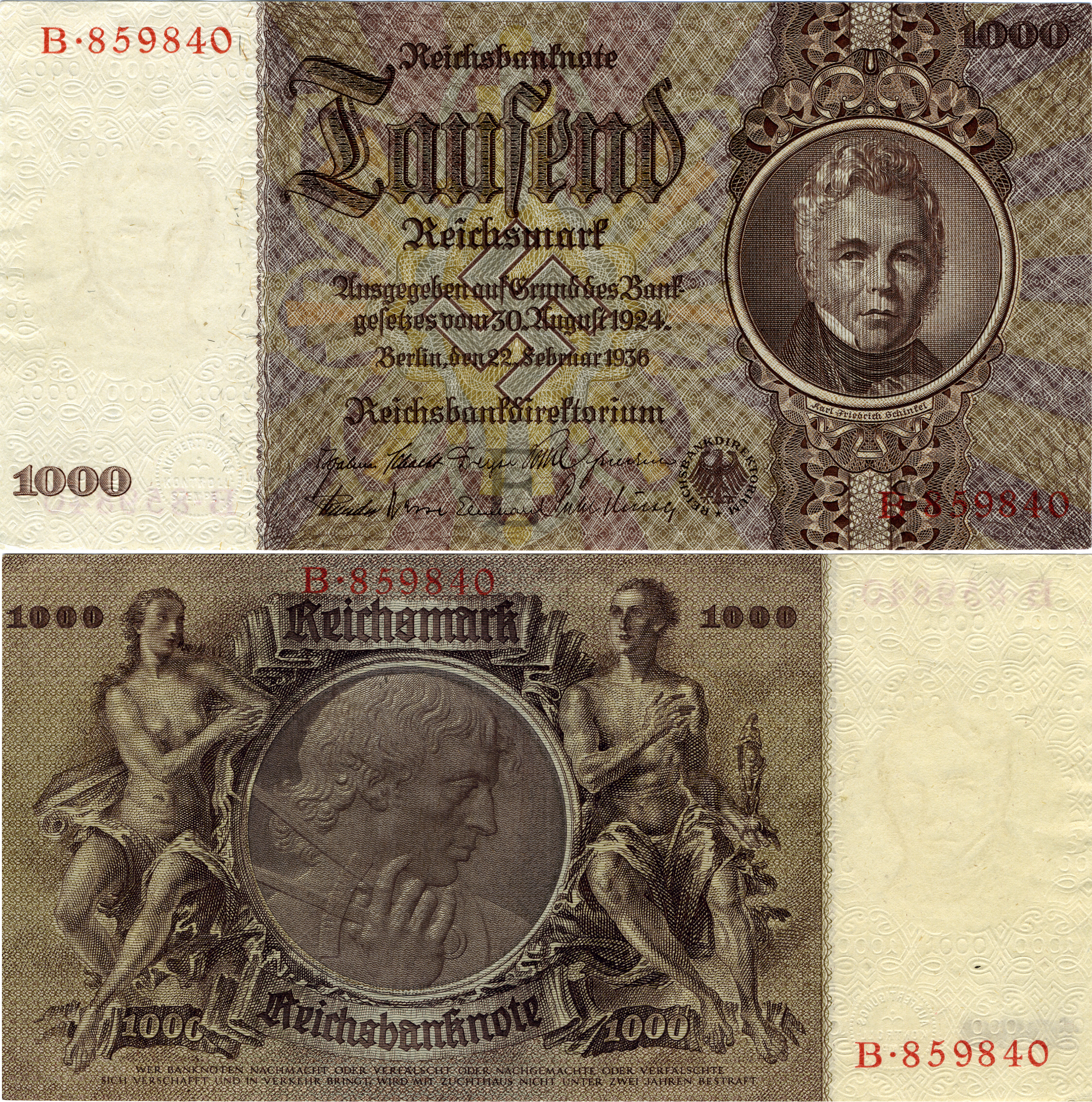 1000 Reichsmark banknote.